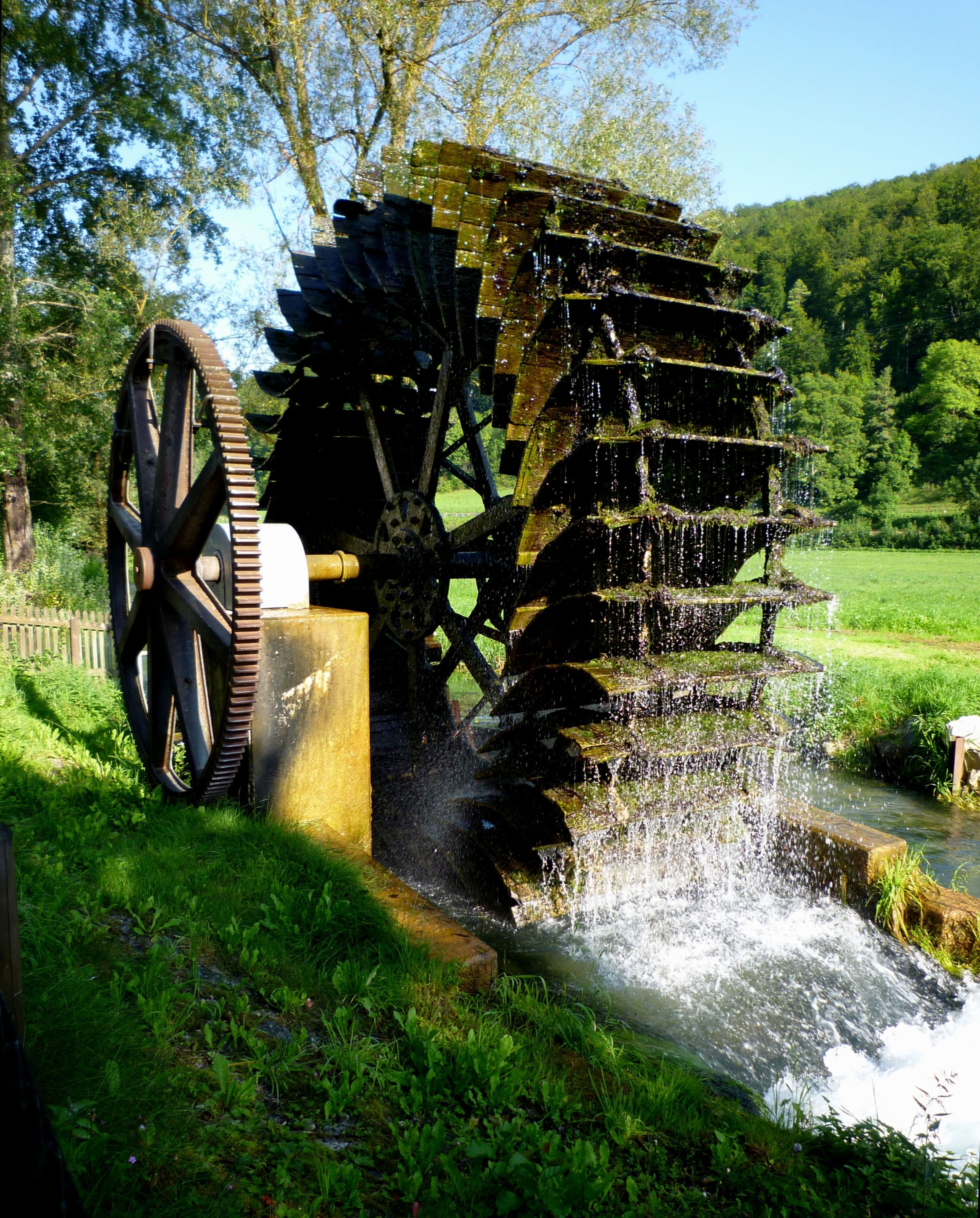 Talsteußlingen (Hütten) in the Schmiech valley: mill-wheel of the former grist mill of the domain Neusteußlingen, constructed in 1911